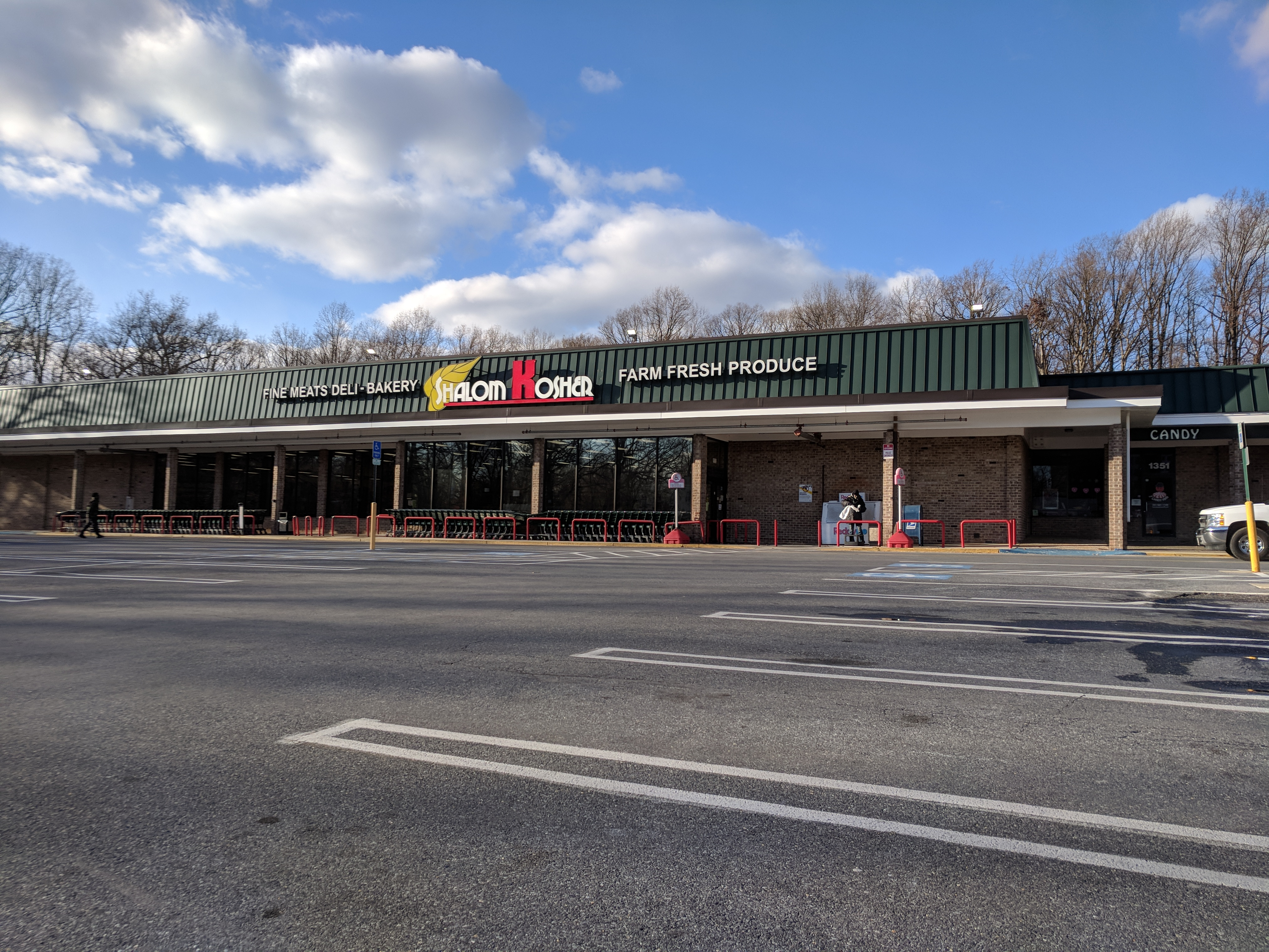 Shalom Kosher, a kosher Jewish grocery store in Kemp Mill, Montgomery County, Maryland.